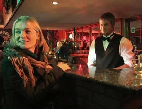 Victoria Tolstoganova & Andrei Batychko on the set of Capital of Sin.